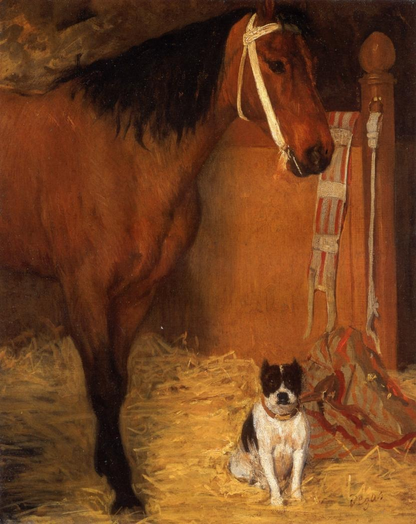 At the Stables, Horse and Dog